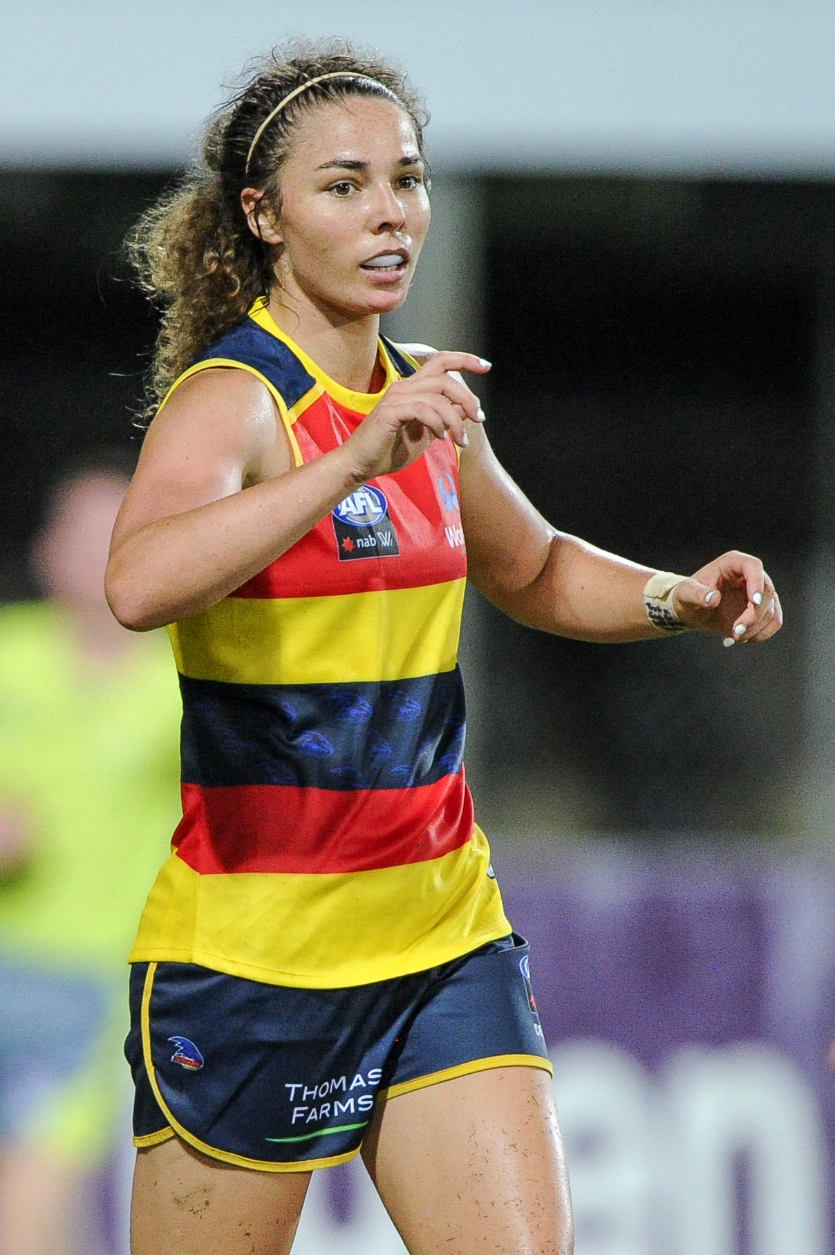 Jenna McCormick in the AFL Women's preseason match between the Adelaide Football Club and Fremantle Football Club on 20 January 2018 at TIO Stadium.